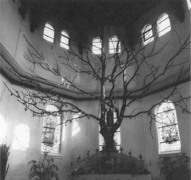 Our Lady in the Oak